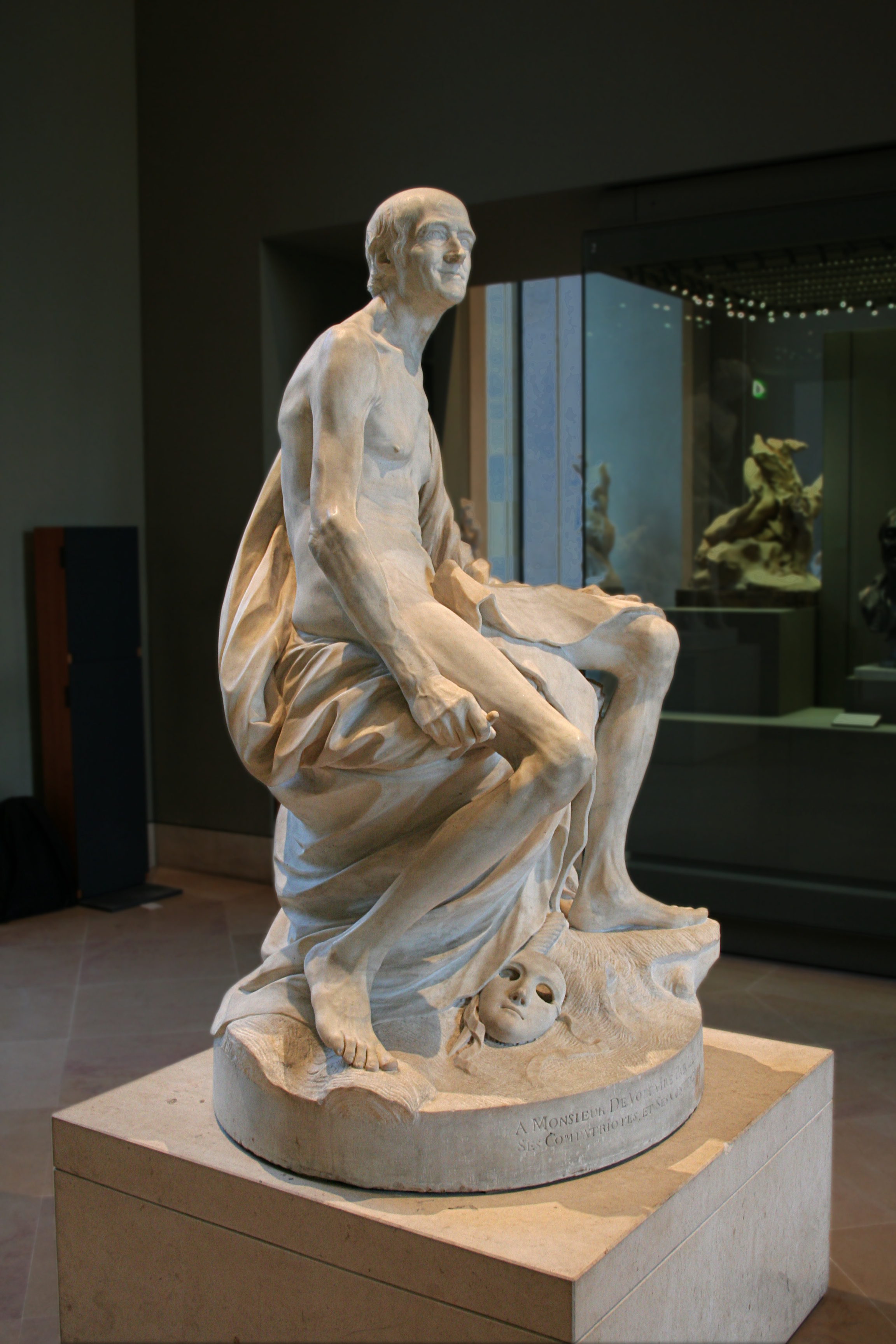 From three-quarters.